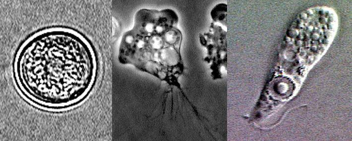 (Naegleria fowleri lifecycle stages. A: Cyst of N. fowleri in culture. Naegleria fowleri does not form cysts in human tissue. Cysts in the environment and culture are spherical, 7-15 µm in diameter and have a smooth, single-layered wall. Cyst)